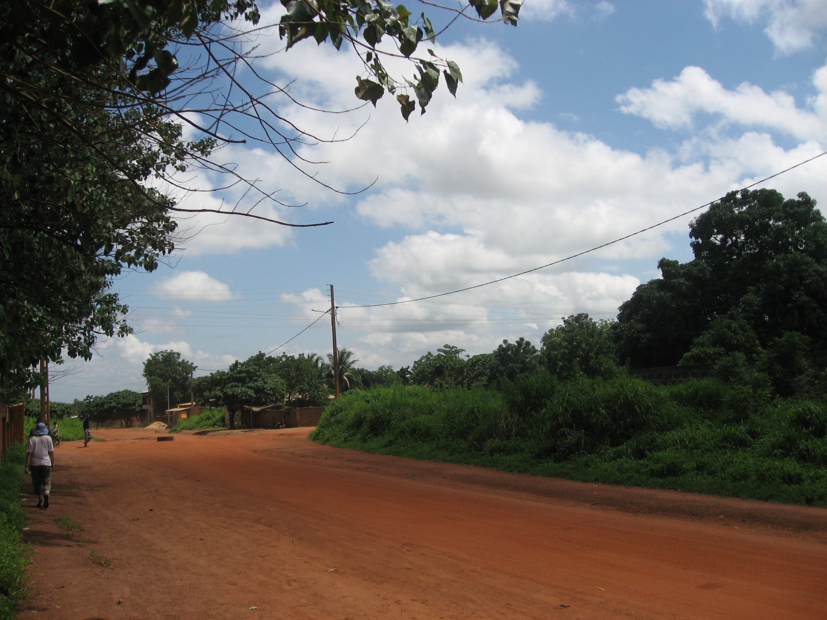 RNIE 6 road leading south of Parakou, Benin